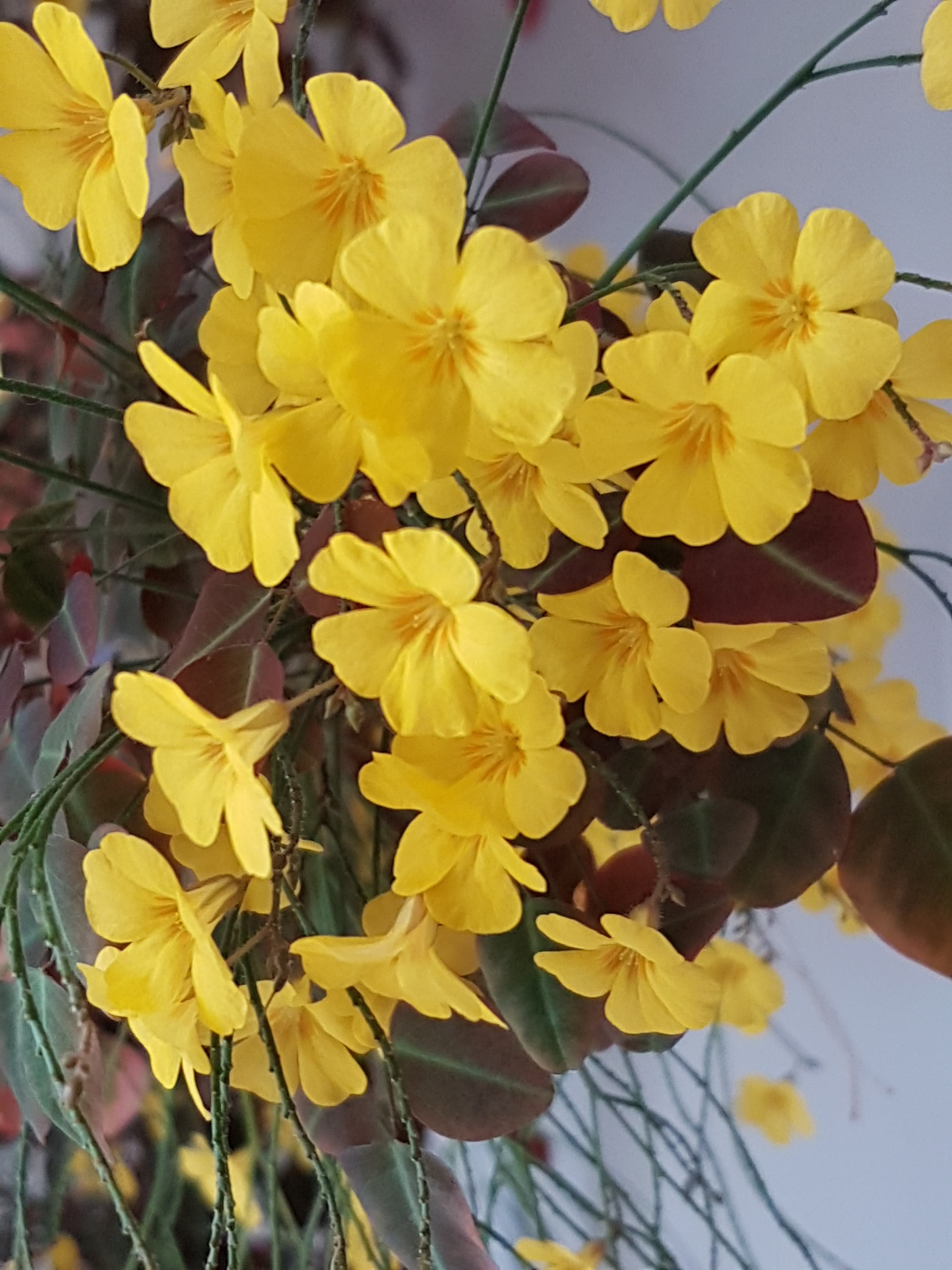 Oxalis hedysaroides is plant also known as fire fern, it is a bush like plant with reddish leaves and bright yellow little flowers.